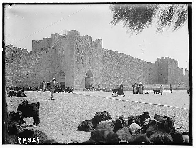 Herod's Gate